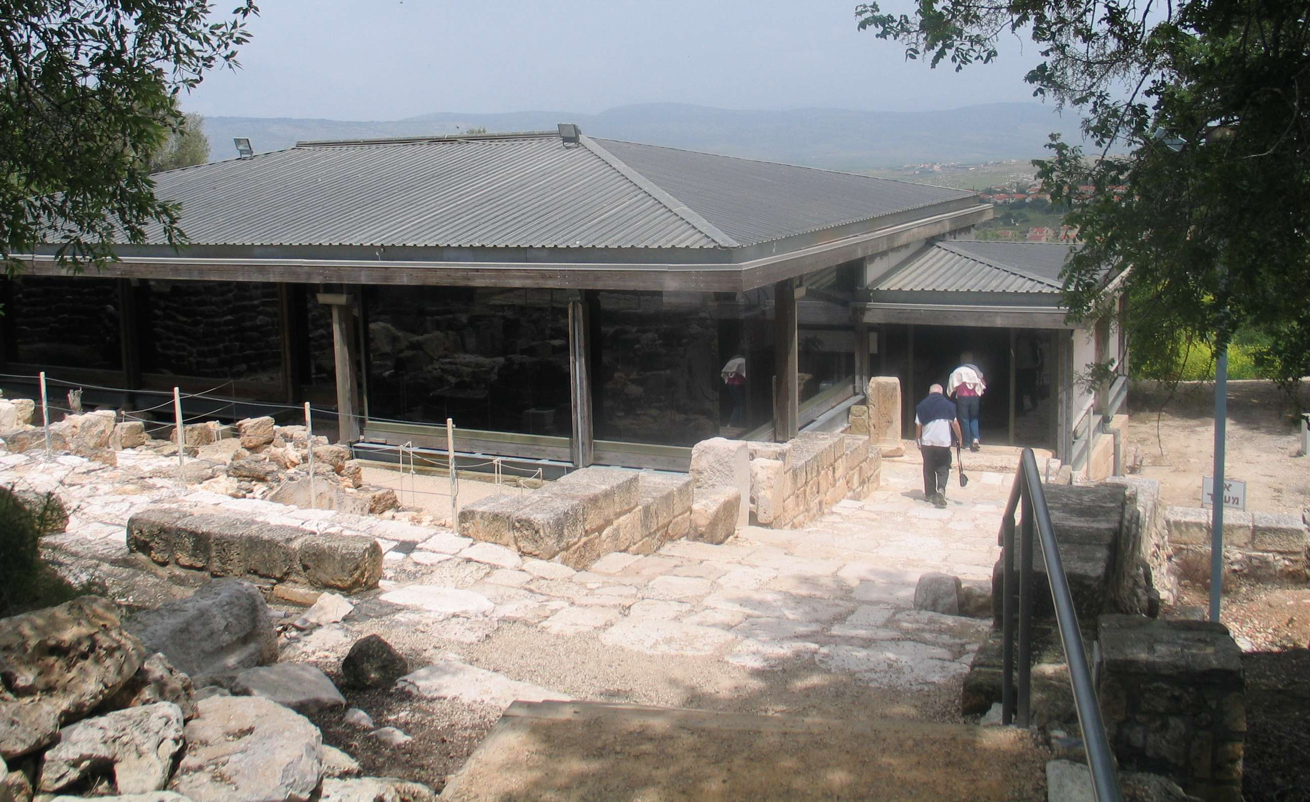 Ancient synagogue in Tsipori, Israel.